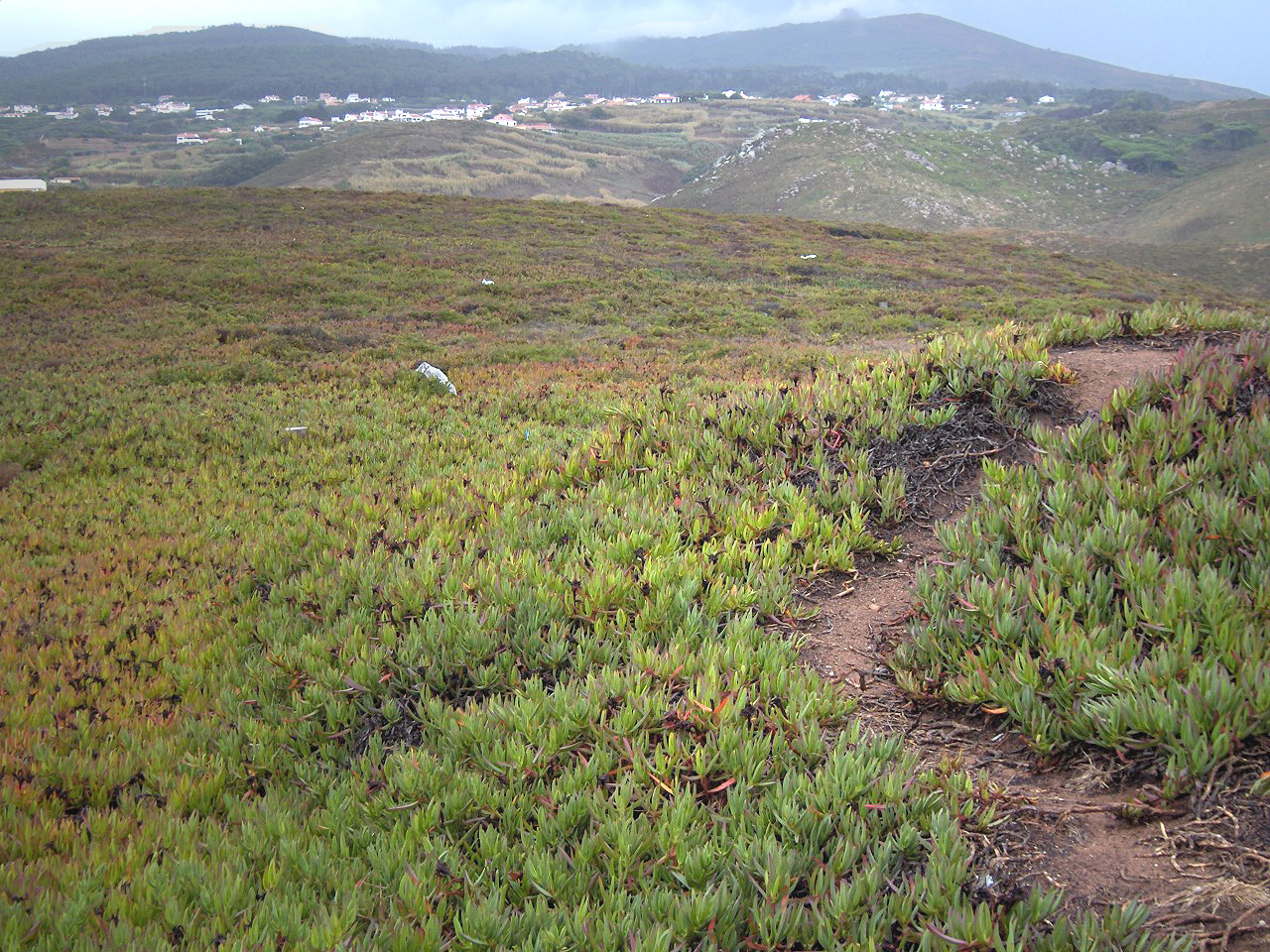 Field of Armeria pseudarmeria; flora of the Cabo da Roca, westernmost point of Portugal; near Sintra